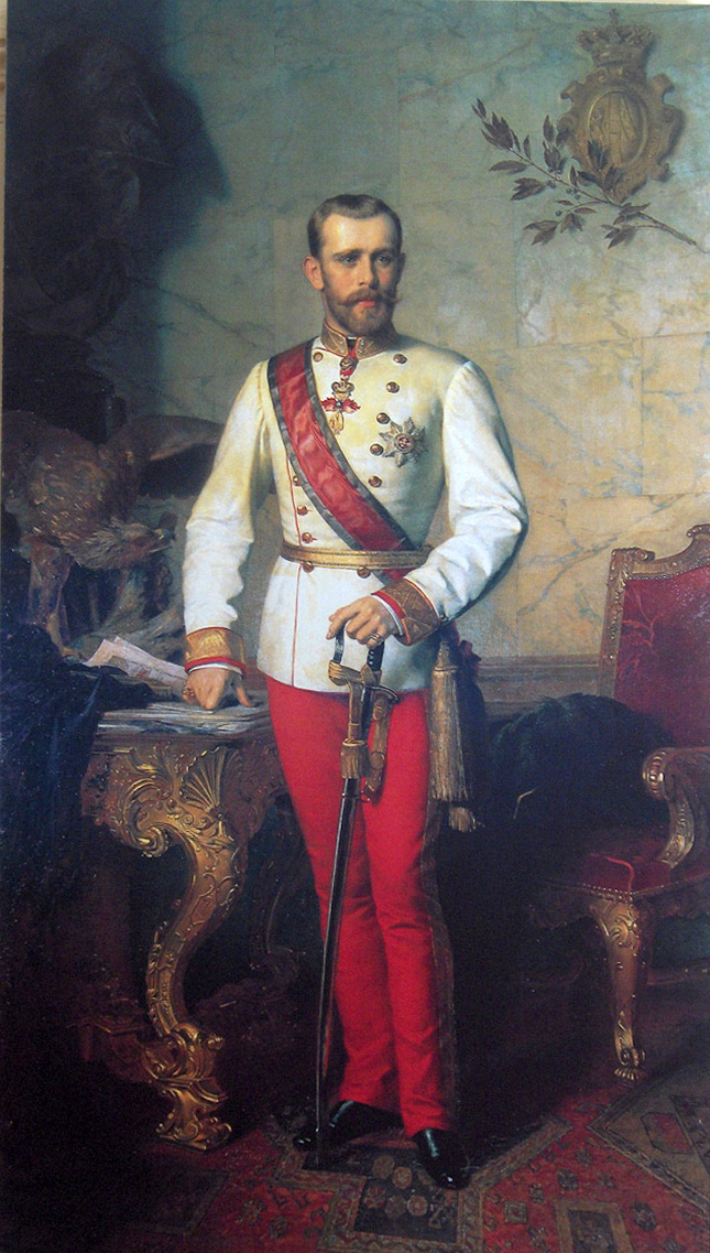 Mayerling, scene of the drama with Crown Prince Rudolph of Austria